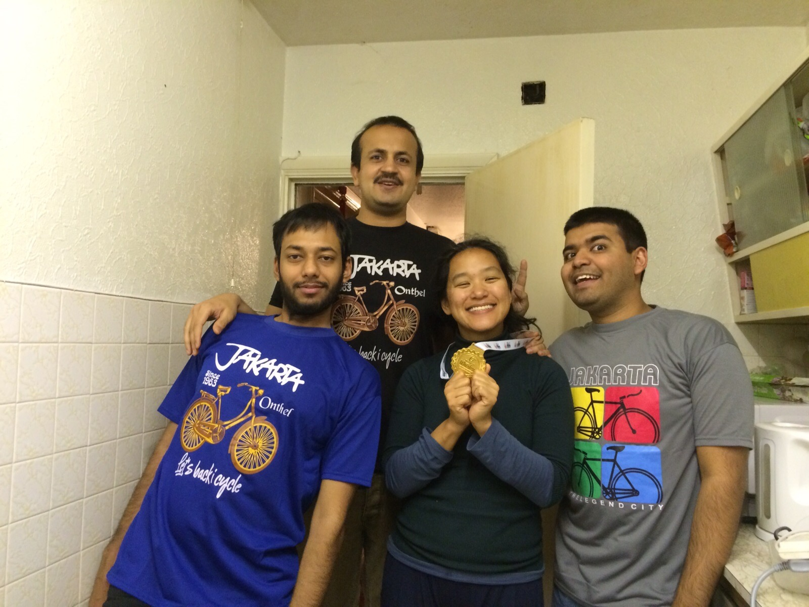 Tania Sakanaka with her gold medal posing with her friends